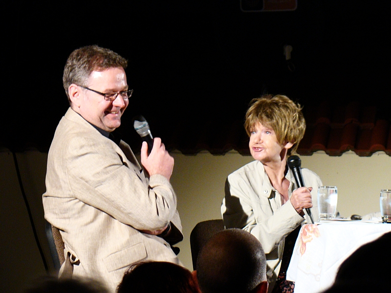 Artur Andrus